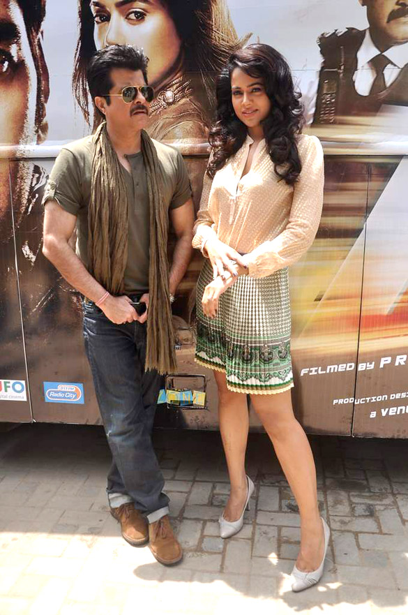 Anil Kapoor,Sameera Reddy at Tezz promotional bus ride